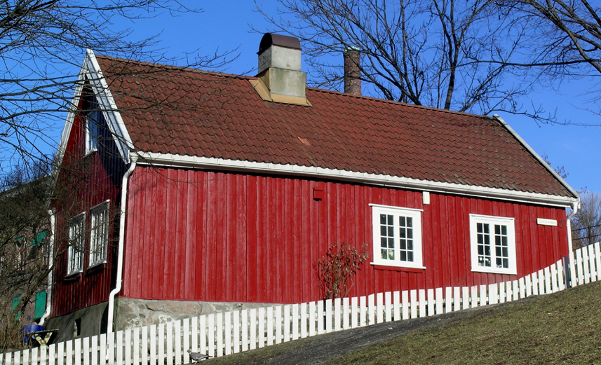 Hønse-Lovisa's house, Sandakerveien 2, Oslo. Built early 19th C as a sawmiller's dwelling.